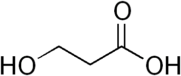 Chemical structure of 3-hydroxypropanoic acid